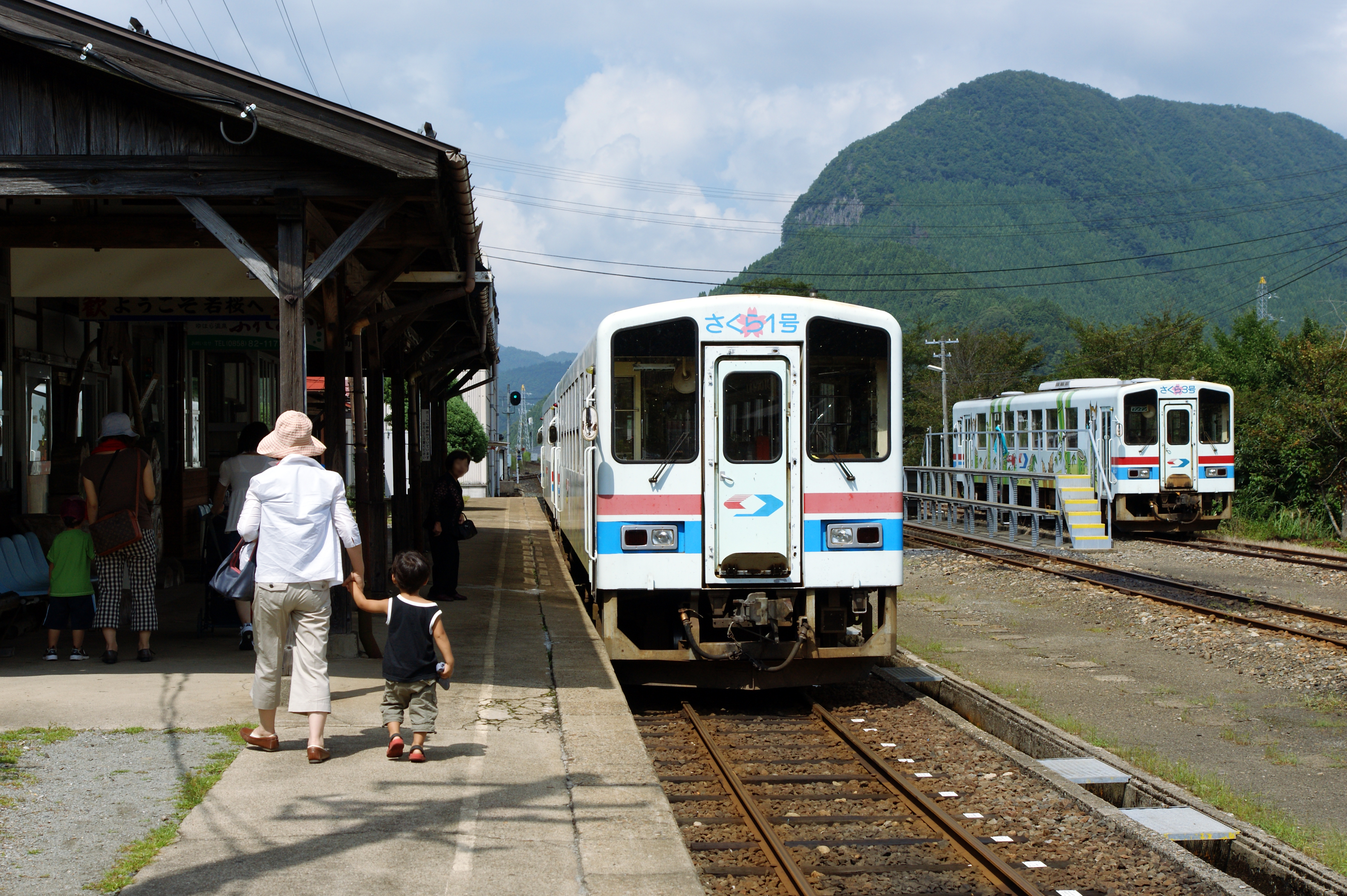 Wakasa Station in Wakasa, Tottori prefecture, Japan